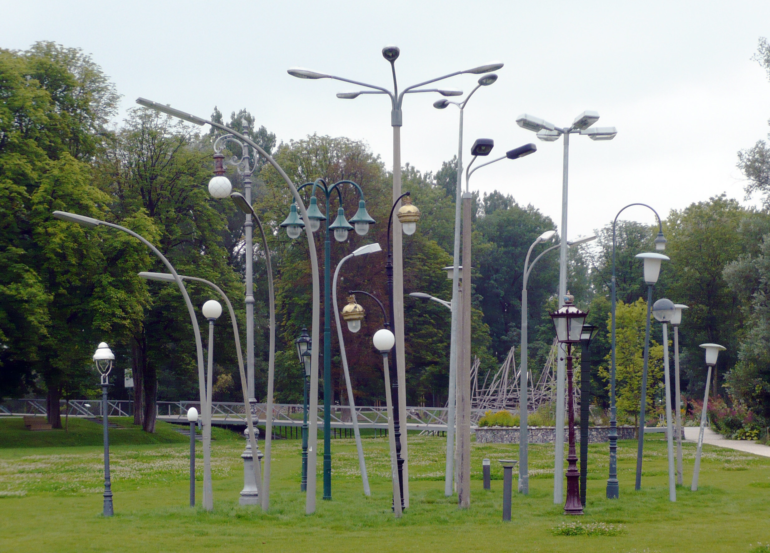 Bavarian horticultural exhibition 2010 in Rosenheim: "Street Light Forest" by Sonja Vordermaier (with explanation)